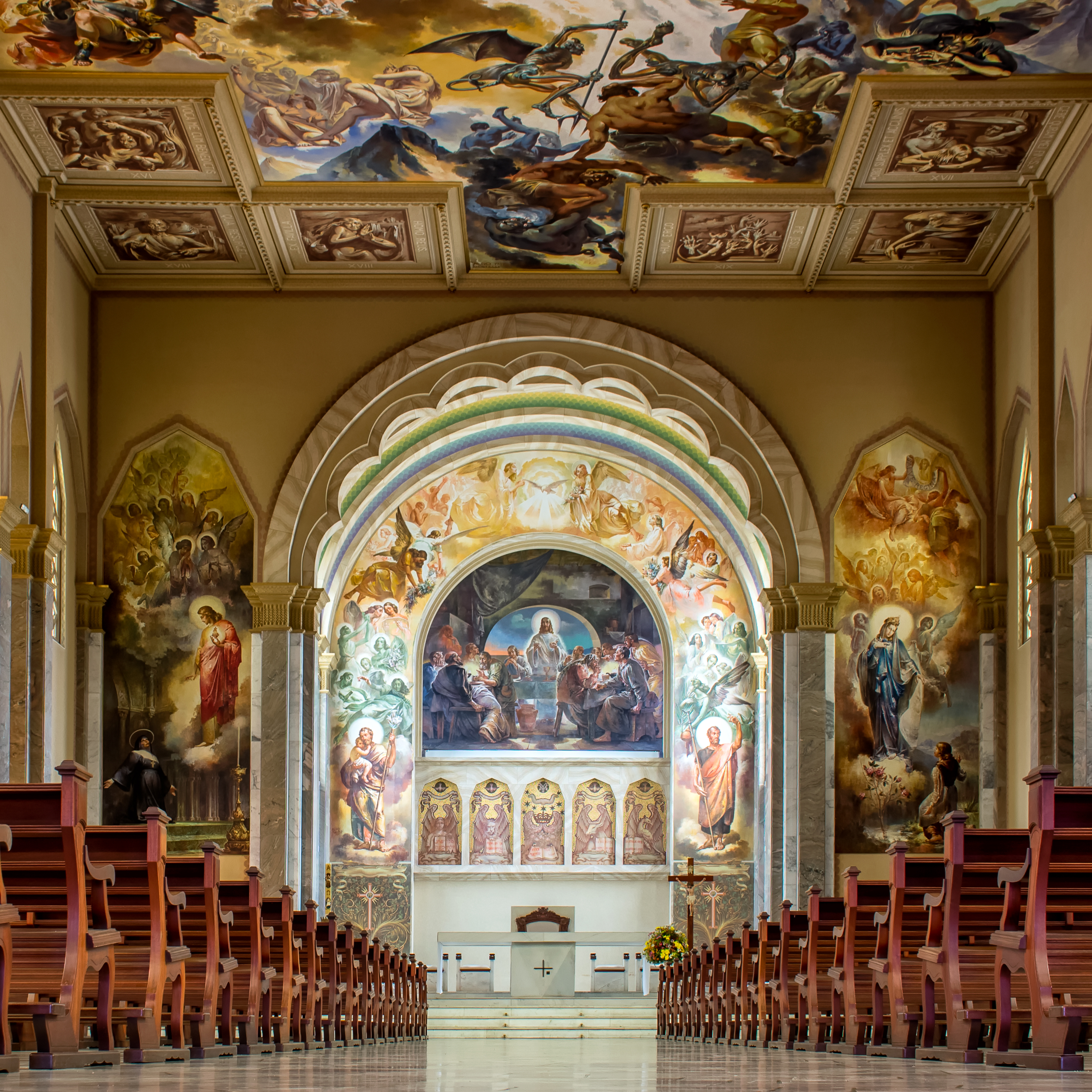 Interior of São Pelegrino's church, Caxias do Sul, Rio Grande do Sul, Brazil.